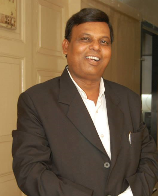 Dr. Suresh Mane